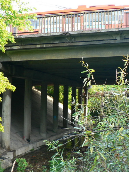 The Bridge over the Kova in Brinskogo street